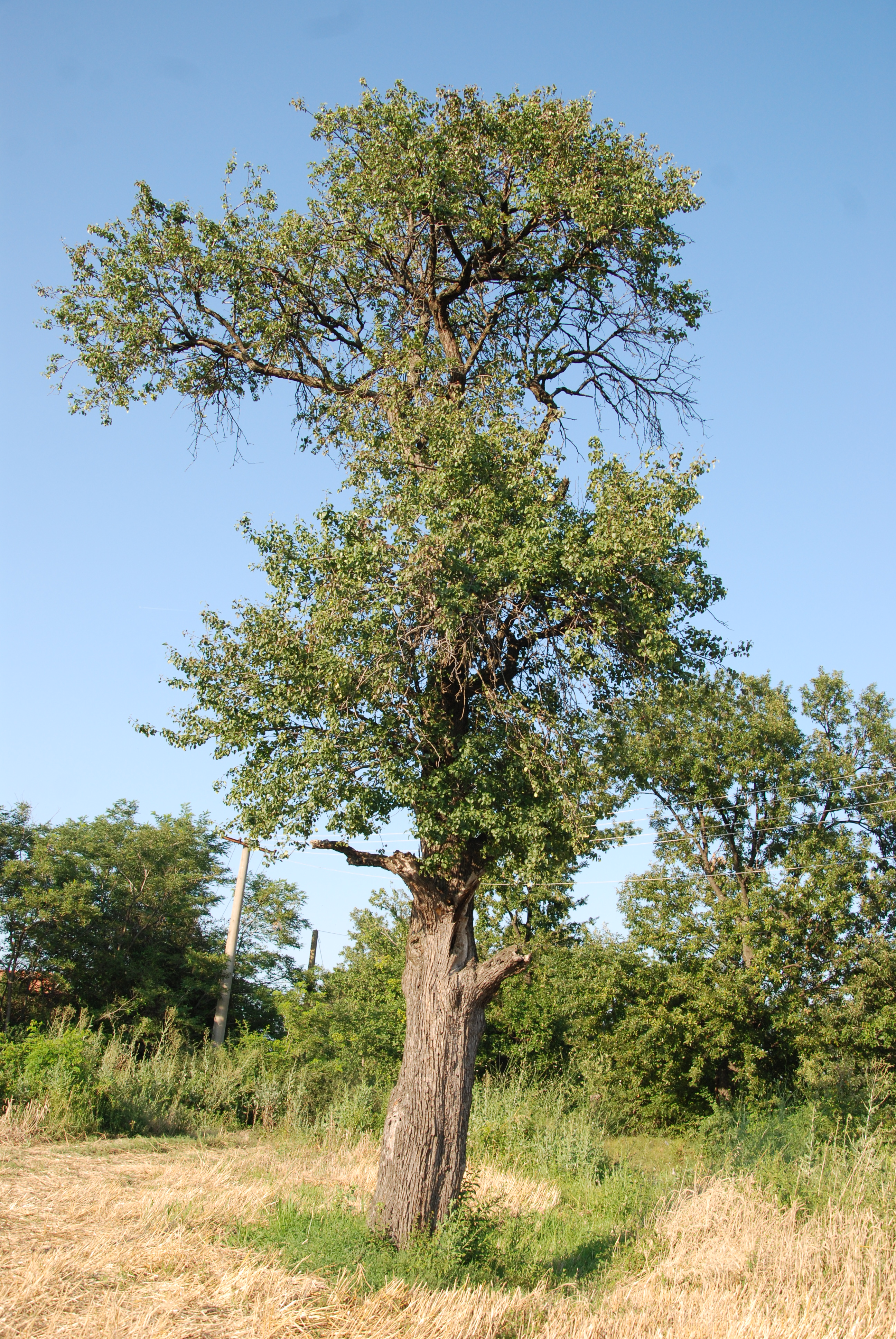 Zapis - Sacred Tree, Pear in village Desimirovac, municipality Kragujevac, Serbia